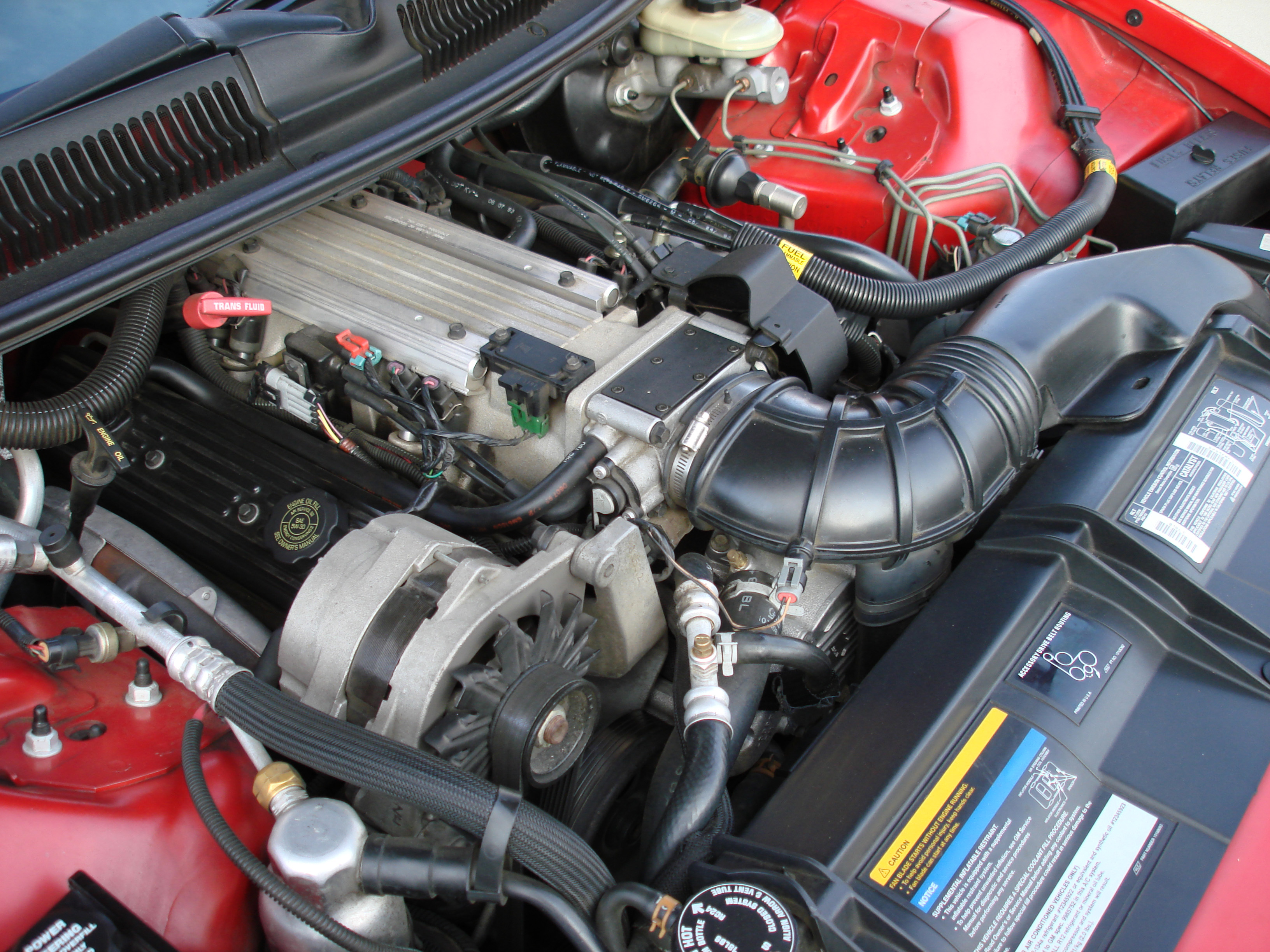 GM LT1 engine from a 1993 Chevrolet Camaro Z28. Camera used was a Sony Cyber-shot DSC-W100.